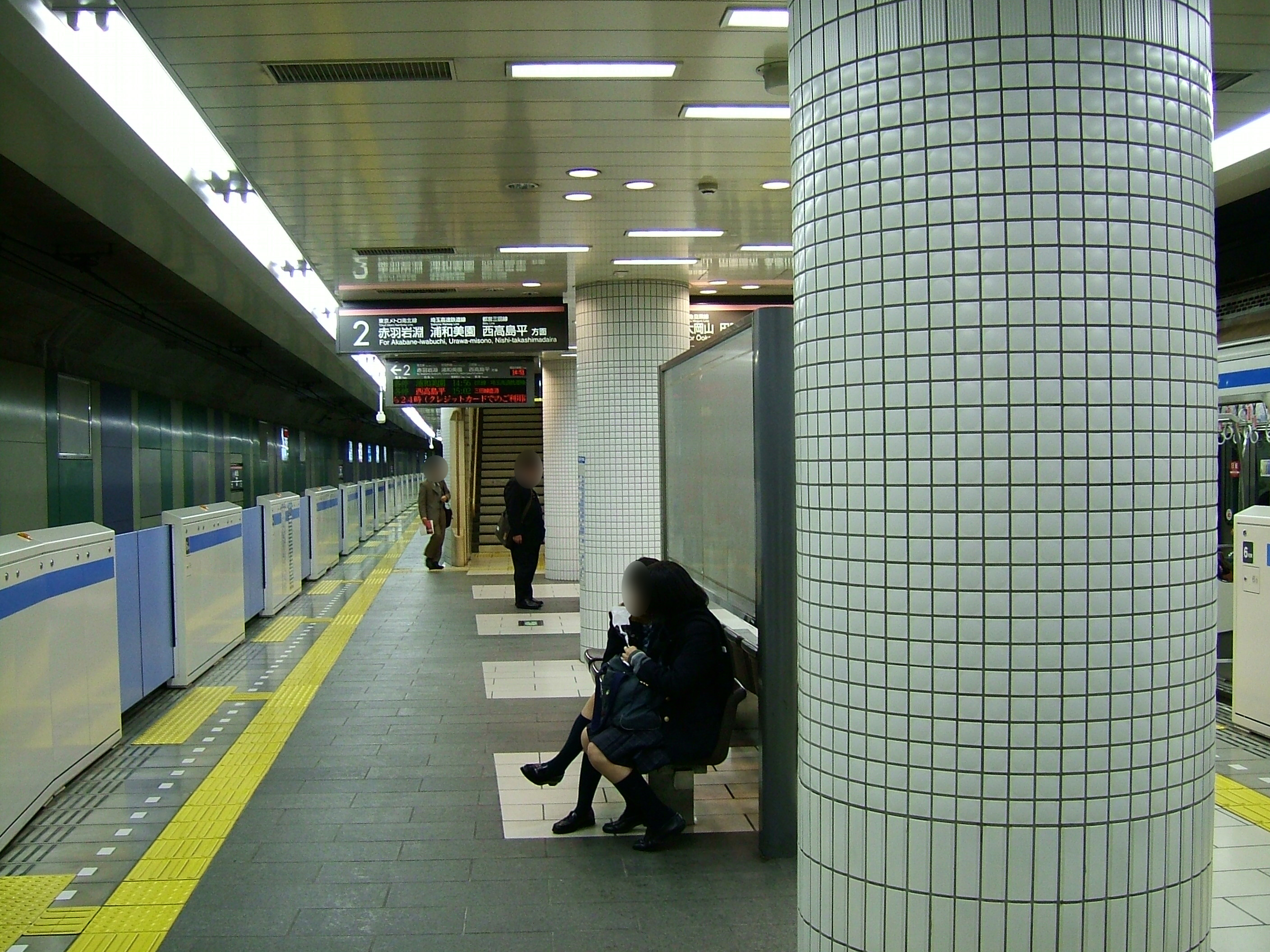 Meguro Station platform (Tokyu Meguro Line, Tokyo Metro Namboku Line, Toei Mita Line)